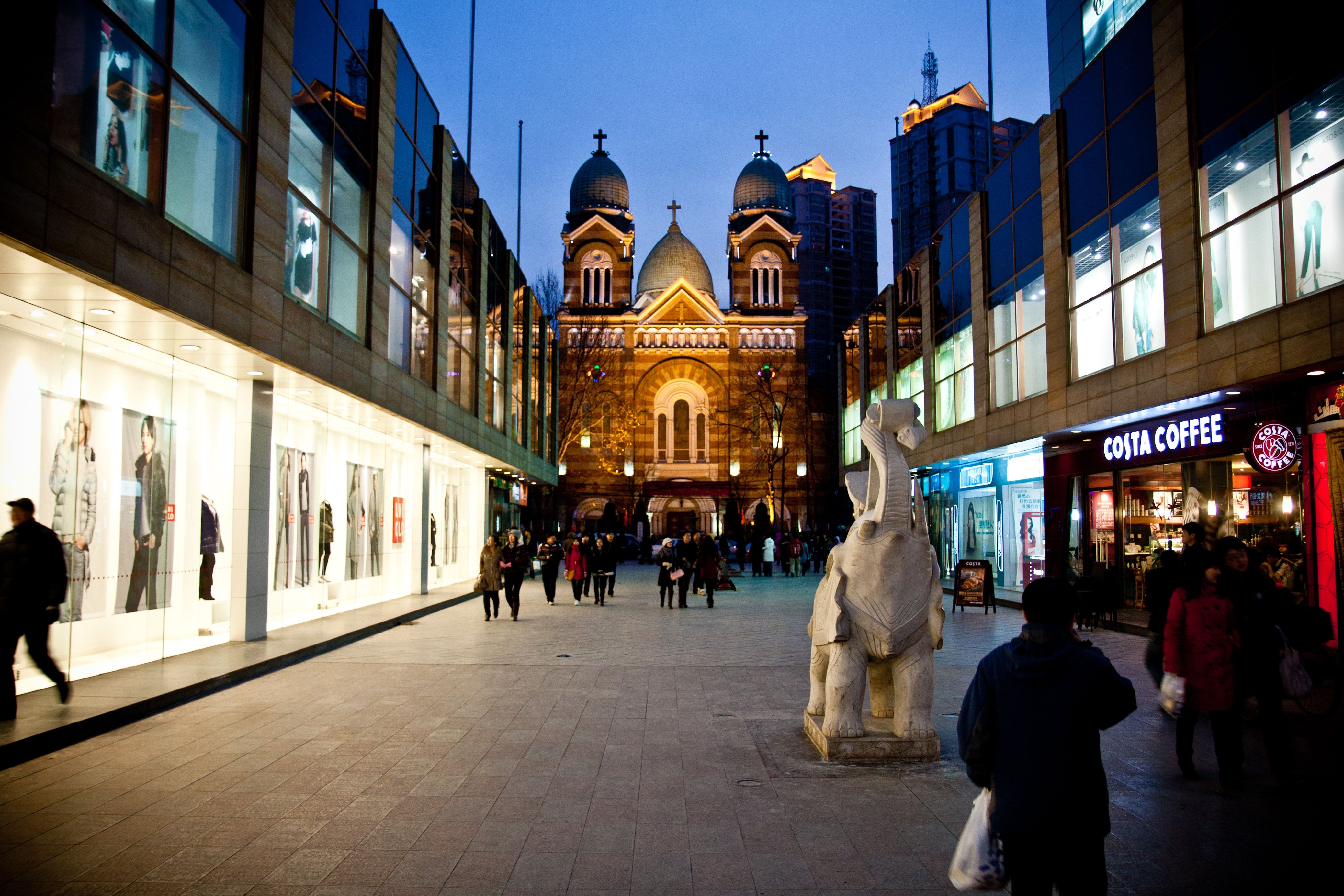 French church in Tianjin, in amongst the major shopping area of Tianjin.